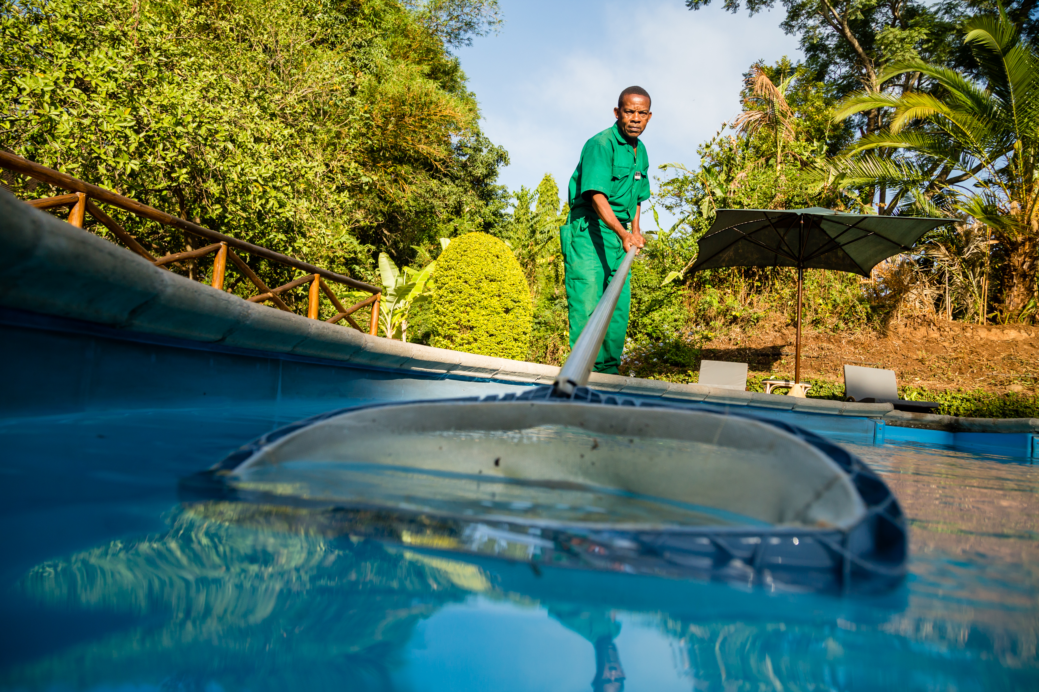 This is an image of "African people at work" from Tanzania